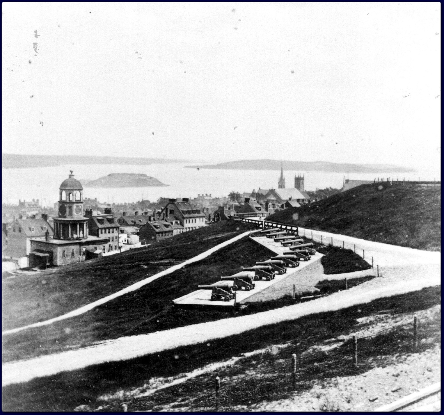 Halifax looking south from atop Citadel Hill - Halifax, Nova Scotia, Canada, circa 1870.